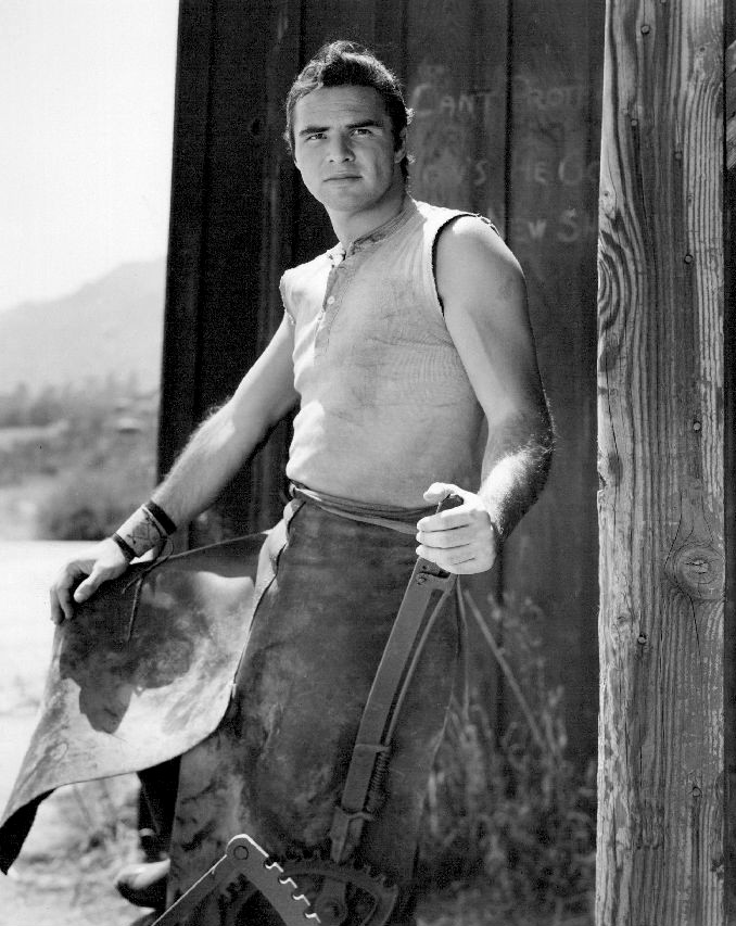 Publicity photo of Burt Reynolds as blacksmith Quint Asper from the television program Gunsmoke.